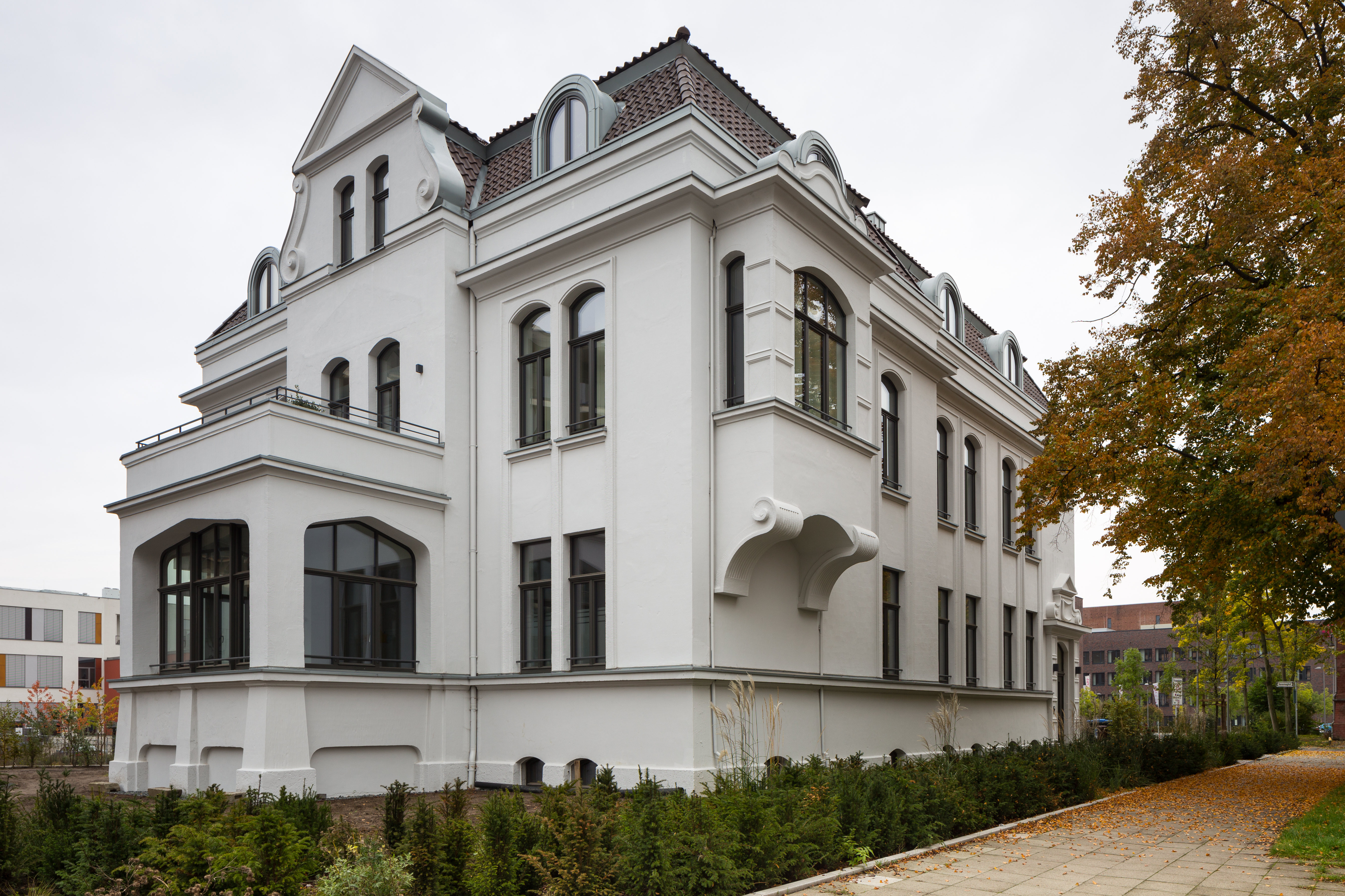 Former director's villa of former Hanomag company located at Hanomagstrasse in Linden-Sued quarter of Hannover, Germany. The image was taken in October 2015 after the renovation of the house has been completed.